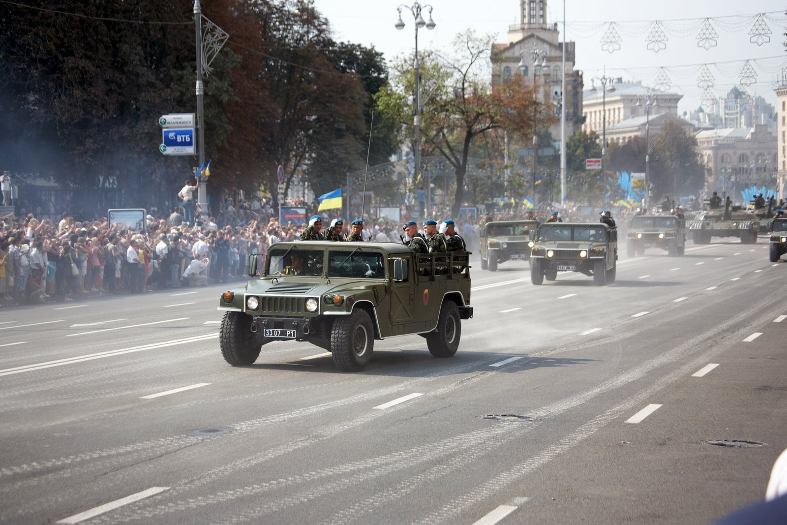 Ukrainian Humvees during the Independence Day parade in Kiev, Ukraine in 2008.